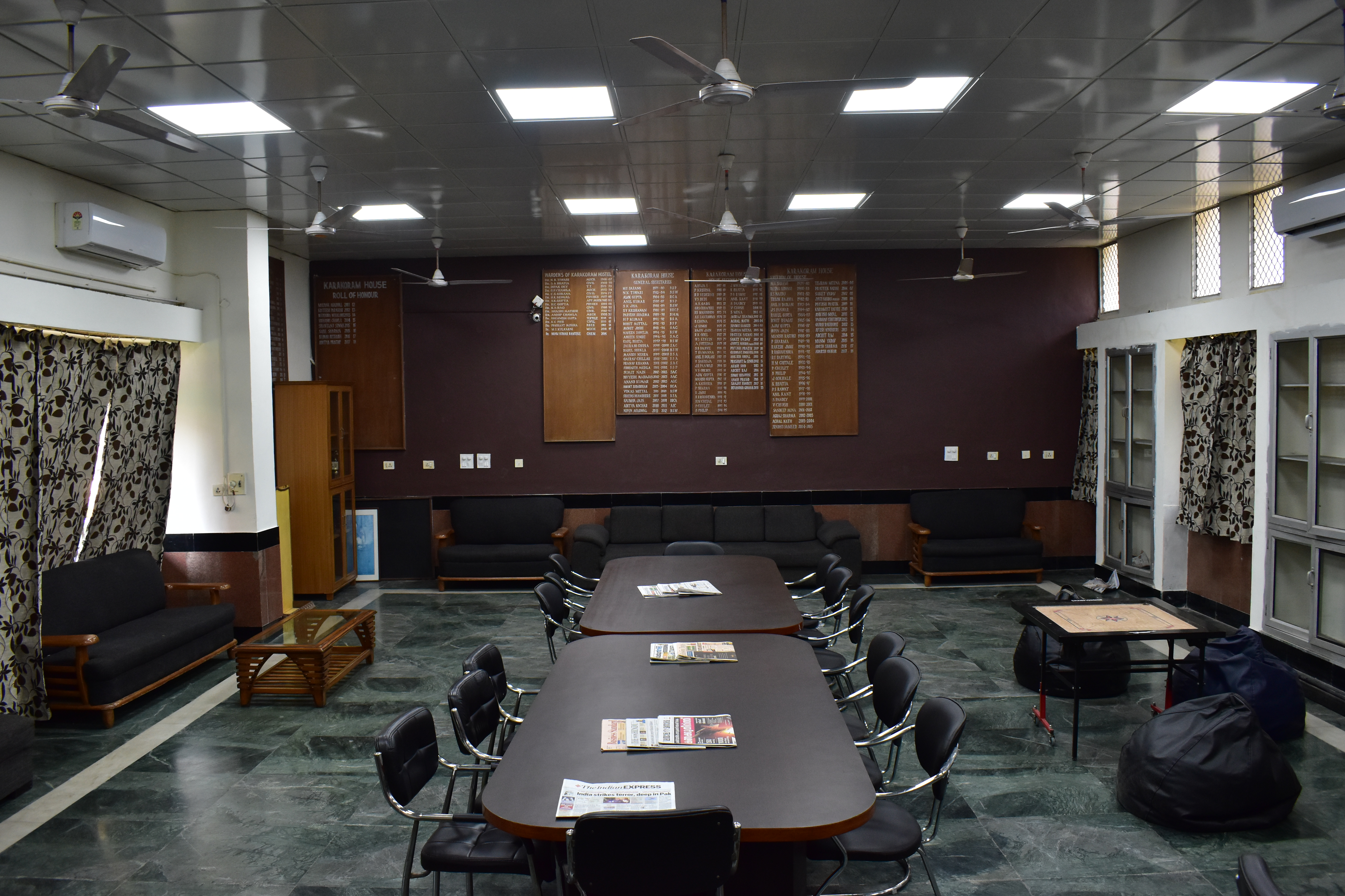 A common room from Indian Institute of Technology, New Delhi, Ind